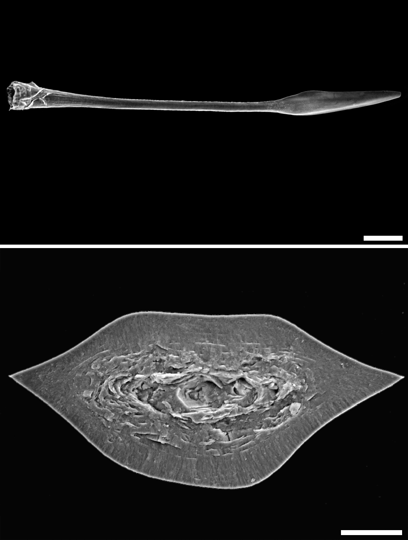 Scanning electron microscopic (SEM) images love-dart of Chilostoma cingulatum. Upper image is love dart from side view while the measure is 500 μm (0.5 mm). Lower image is cross-section while the measure is 50 μm.